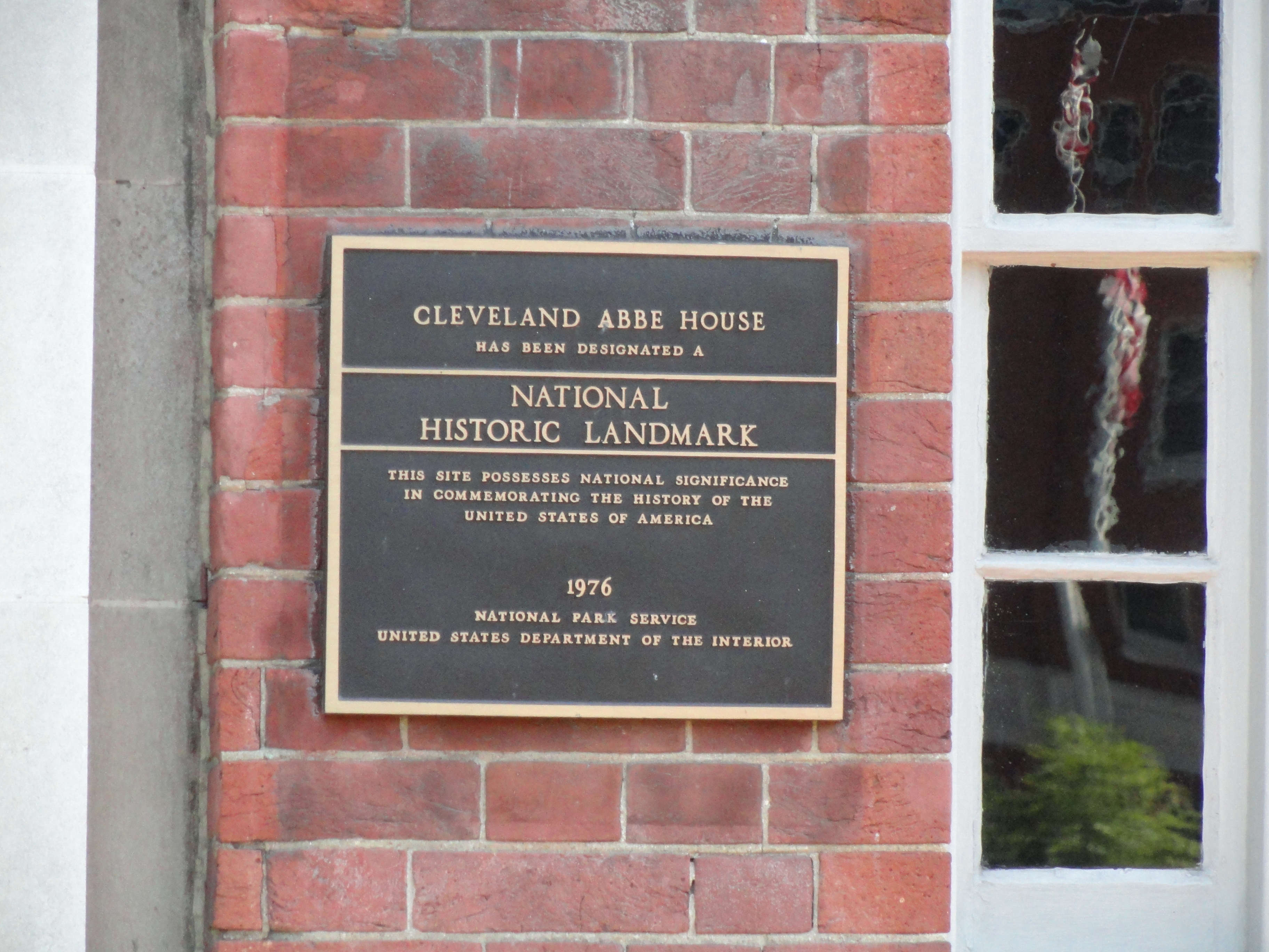 Cleveland Abbe House, 2017 I Street NW, Washington, D.C., USA. Declared a National Historic Landmark in 1975.